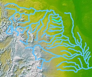 Heart River © 2004 Matthew Trump